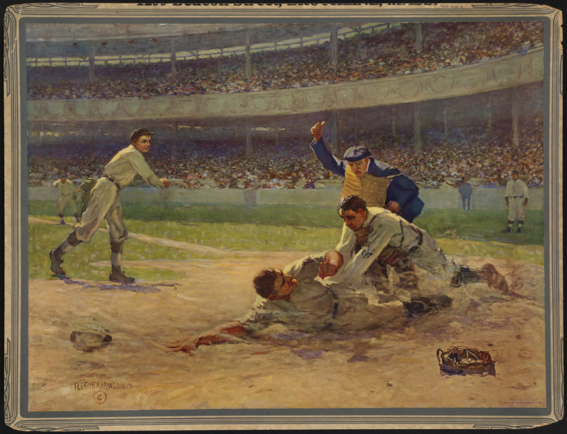 File name: 06_06_000189 Title: Out at home Creator/Contributor: Ransom, Fletcher C. (Fletcher Charles), 1870-1943. (artist) Created/Published: Date created: 1905 Physical description: 1 photomechanical print : offset photo lithograph Description: Reproduction of a painting by Fletcher C. Ransom entitled "Out at Home." Christy Mathewson is the pitcher, Roger Bresnahan is the catcher. Bresnahan is tagging out the Philadelphia Athletics runner while Manager John McGraw, far right, looks on. Genre: Offset lithographs Subjects: Baseball; Baseball players; New York Giants (Baseball team); Philadelphia Athletics (Baseball team) Notes: McGreevey no. 135 Location: Boston Public Library, Print Department Rights: No known restrictions